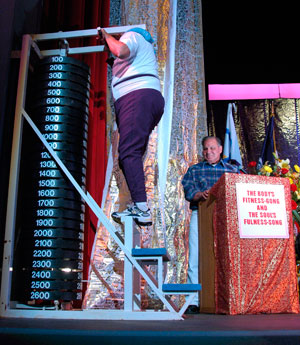 Sri Chinmoy Calf Lift at Weightlifting Ceremony with Bill Pearl Master of Ceremony